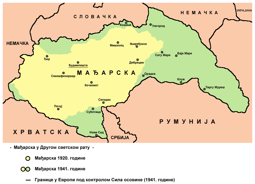 Hungary in 1920 and in 1941.